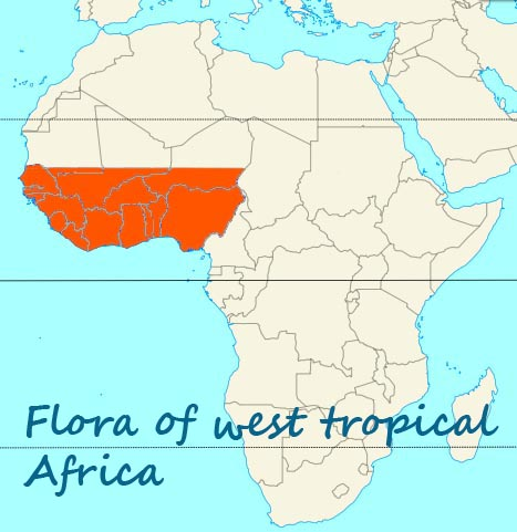 Area covered by Flora of west tropical Africa